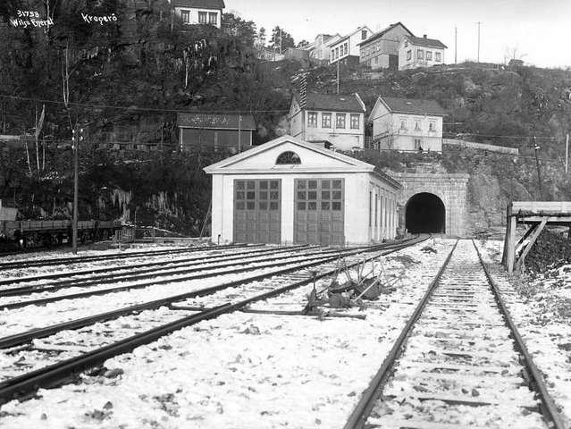 Tangen Tunnel on the Kragerø Line in Kragerø, Norway